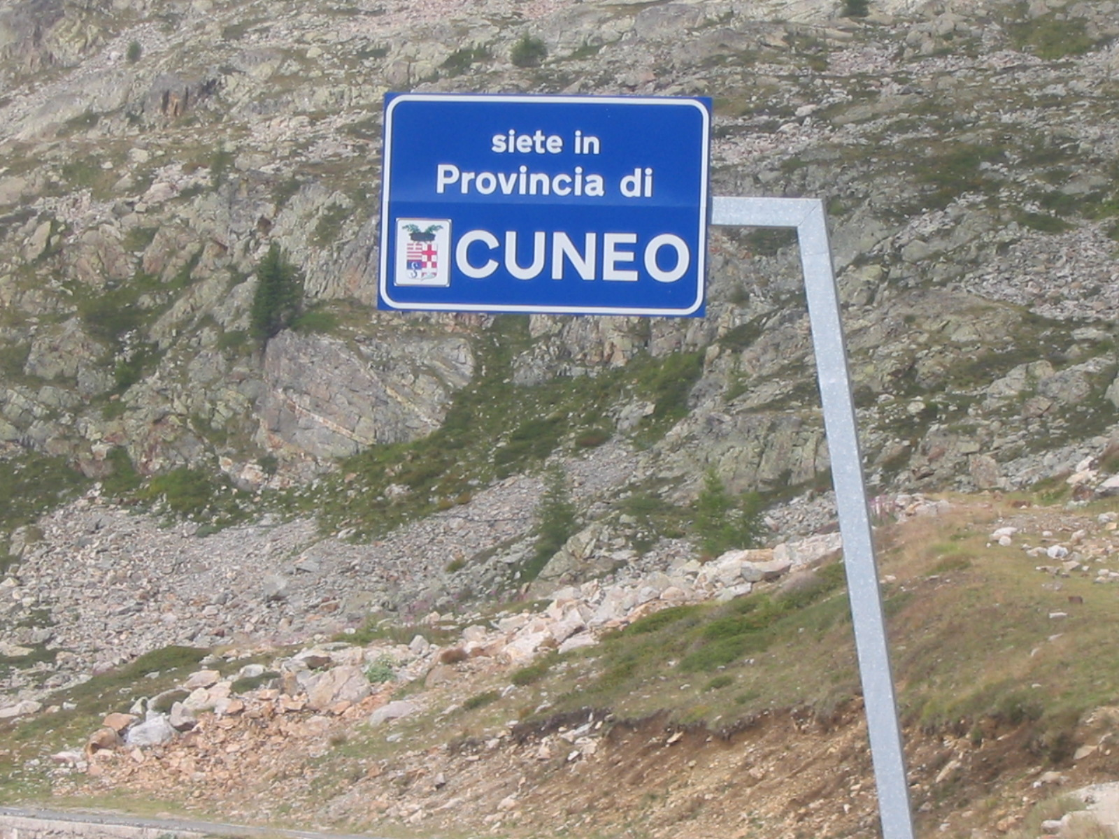 Province of Cuneo border on Colle della Lombarda, Italy-France border